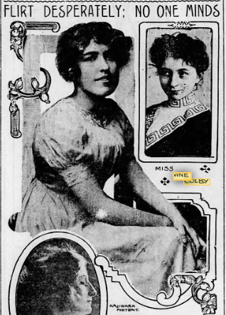 Screenshot-2017-9-17 1 Aug 1912, Page 11 - St Louis Post-Dispatch at Newspapers com(1)